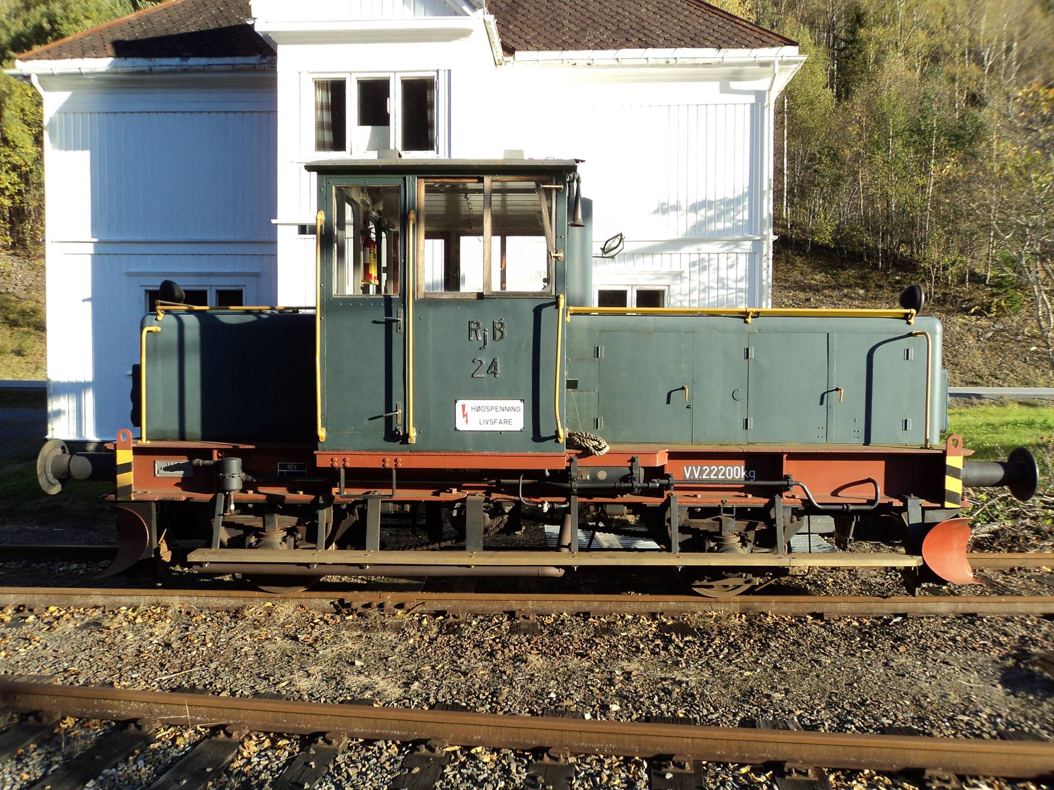 The shunter Rj.B. 24 (Rjukanbanen, the Rjukan line), former NSB (Norwegian State Railways) Skd 213 65. Picture taken at Mæl station, Telemark, Norway